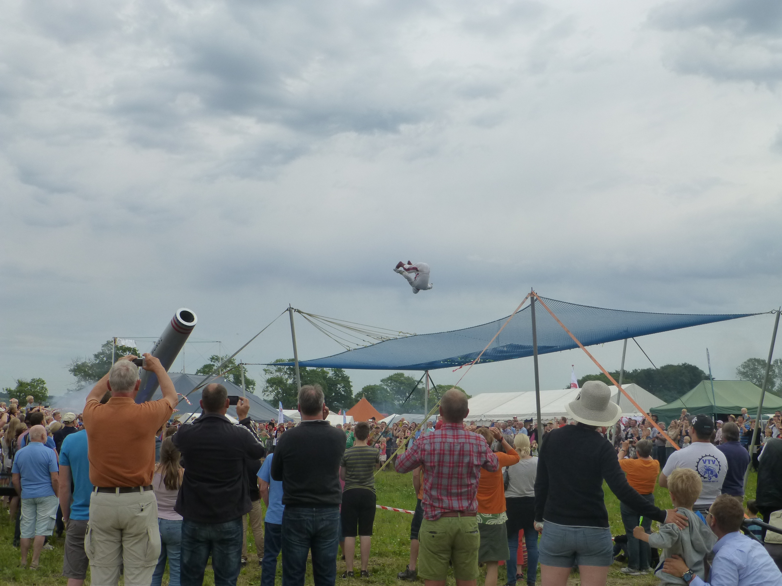 The human cannonball Captain Munoz at the heritage fair Græsted Veterantræf in Græsted in Denmark.